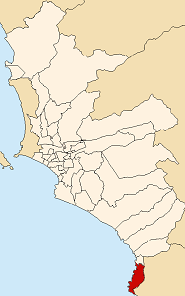 Map of Lima highlighting the Pucusana district in Lima.